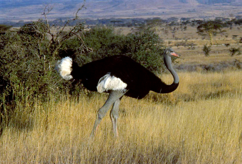 Ostrich in the Lewa Conservancy near Isiolo, Kenya.